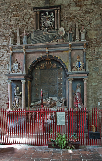 St Mary's Collegiate Church, Youghal (Sir Richard Boyle Memorial) This impressive monument to Sir Richard Boyle, 1st Earl of Cork (1566 - 1643) is in the Tudor chantry chapel in the South Transept, also known as The Boyle Chapel. The tomb shows him with his first and second wives and their children, including the infant Robert Boyle, the founder of modern chemistry and the establisher of 'Boyles Law'.